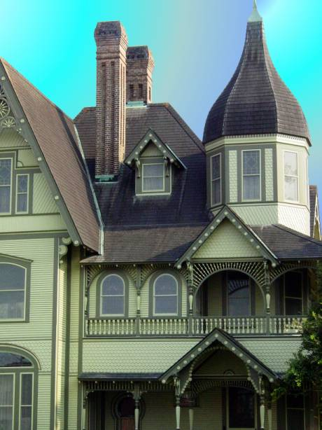 The Stark House in Orange, Texas preserves 19th century heritage.